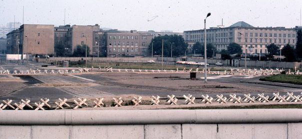 Potsdamer Platz in East Berlin as seen from viewing stand on the West Berlin side of the Wall, 1977. Other information Photo by George Garrigues